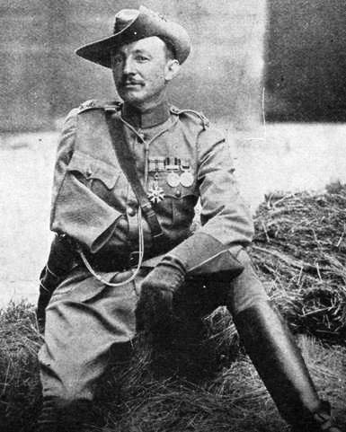 Col. Maurice Gifford, CMG, during the Second Boer War